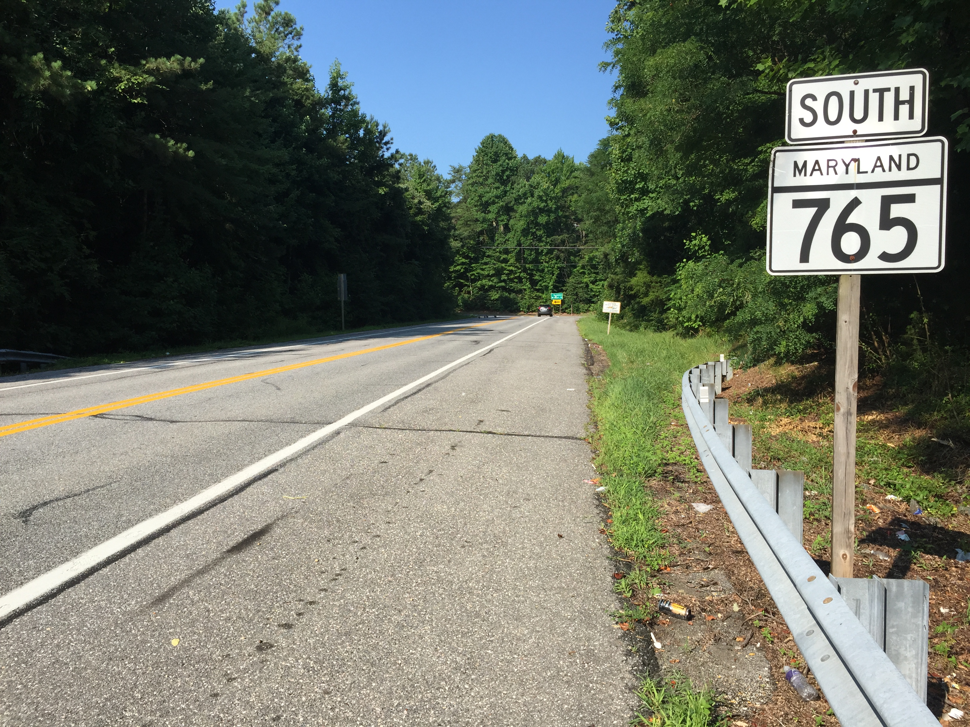 View south along Maryland State Route 765 (Pardoe Road) just south of Maryland Route 2 and Maryland Route 4 (Solomons Island Road) in Calvert County, Maryland